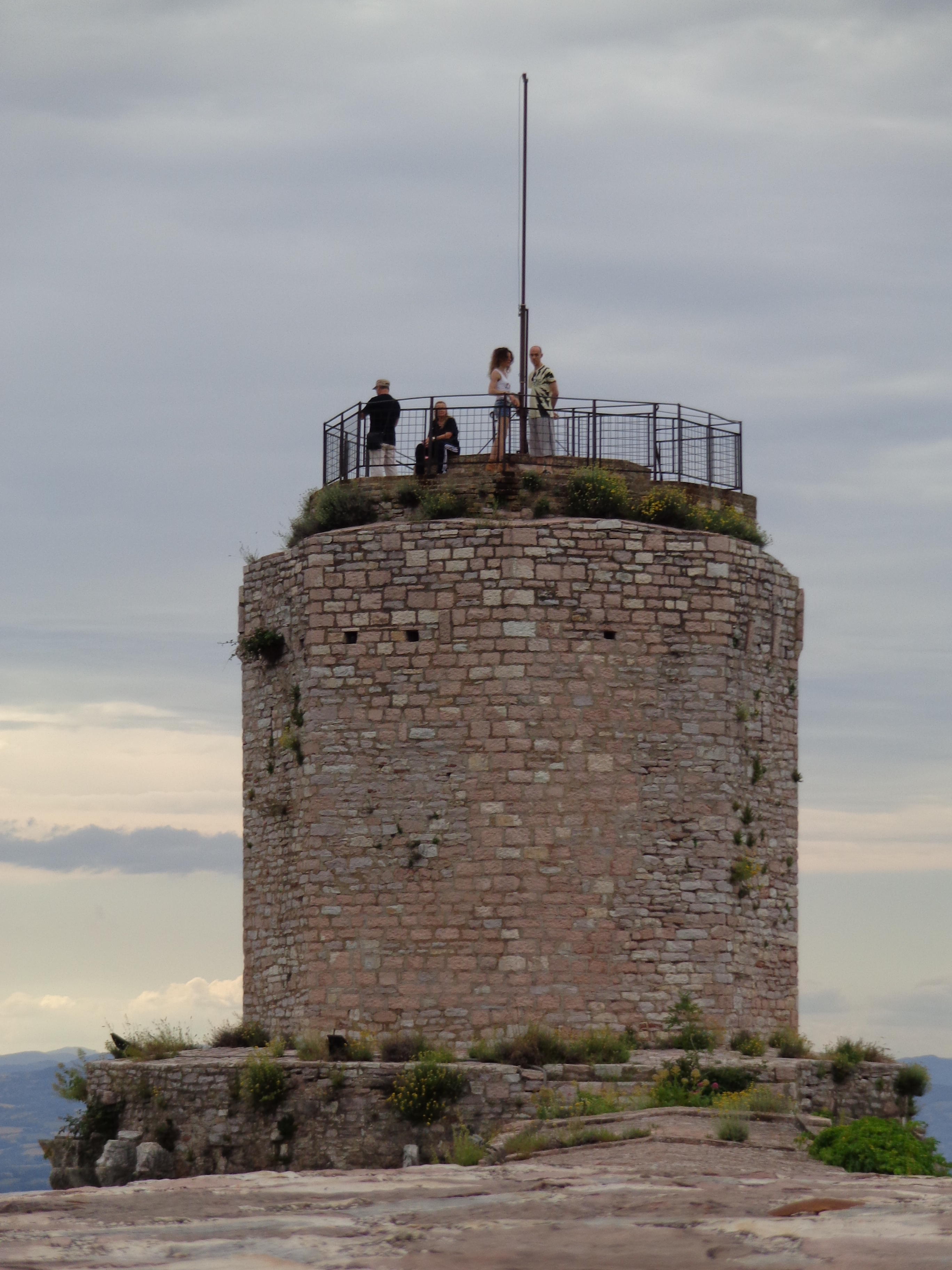 Rocca Maggiore (Assisi)